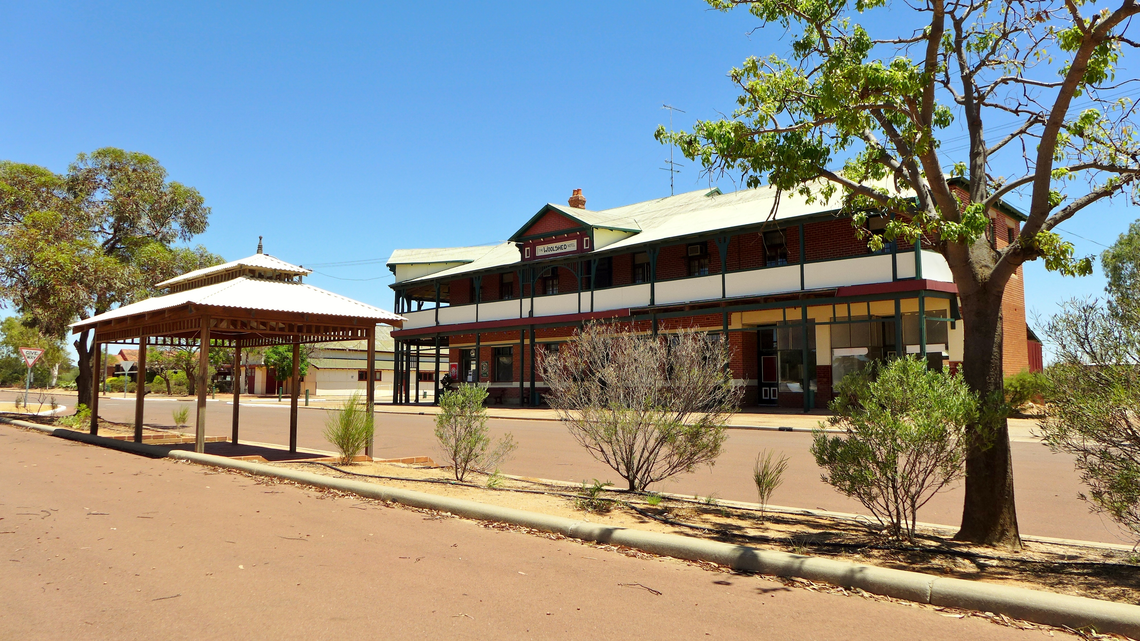 View of The Woolshed Hotel in Railway Avenue, Nungarin, Western Australia.